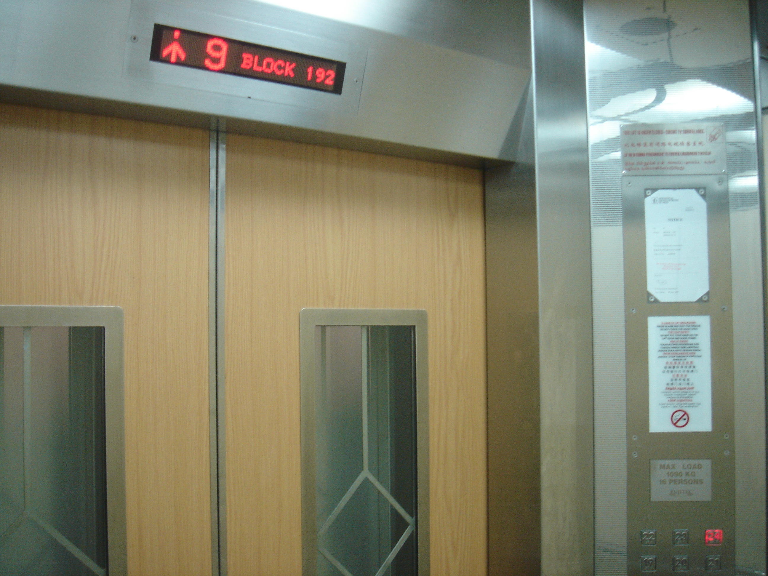 Interior of a newly upgraded elevator under LUP in Bishan, Singapore. Its capacity has increased to 16 from 10.